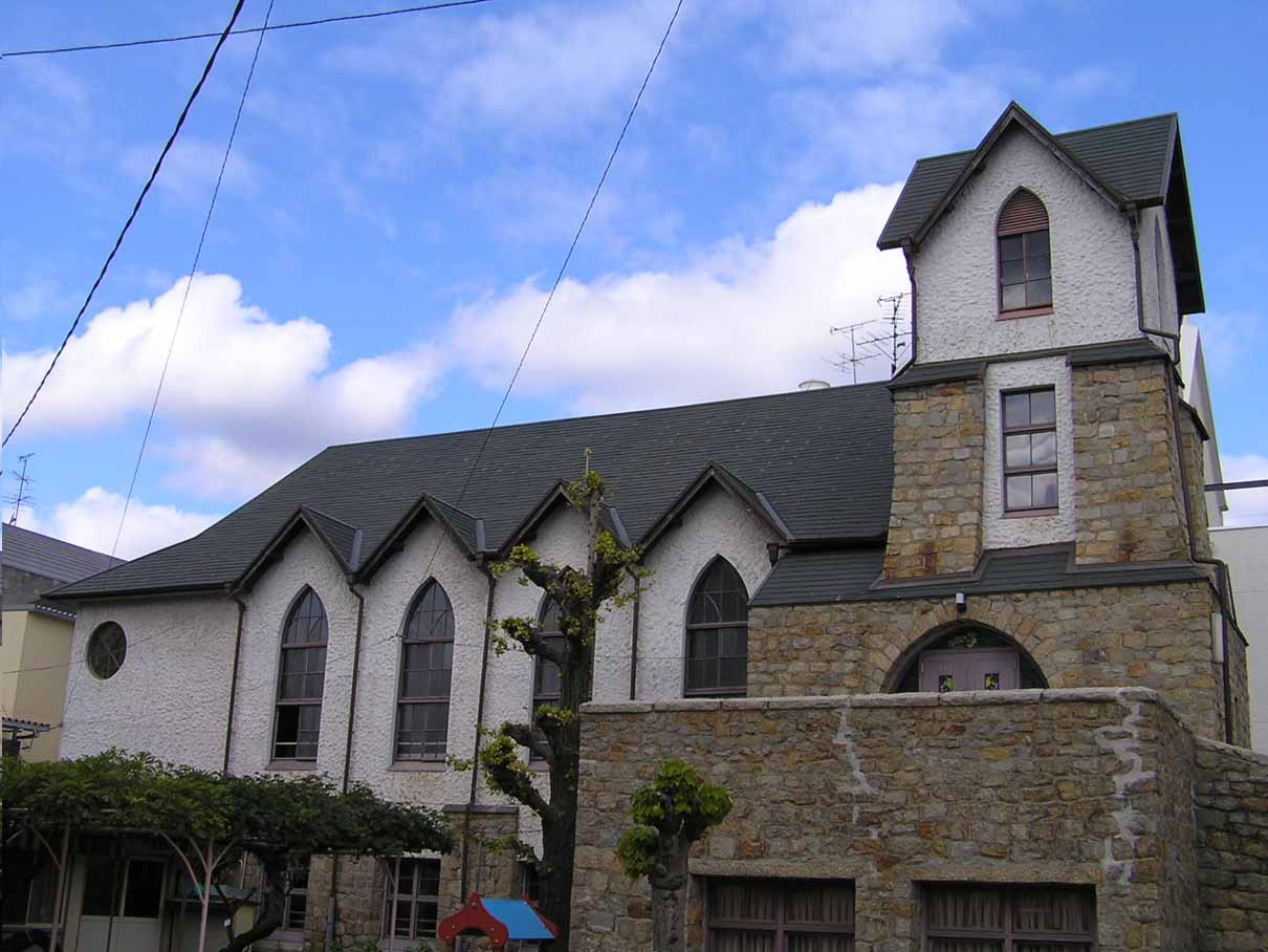 Japanese Christianity group Kurashiki church